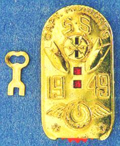 A radio premium, a 1949 Captain Midnight Key-O-Matic Code-O-Graph, the last of several cryptological premiums offered on the Captain Midnight radio serial.